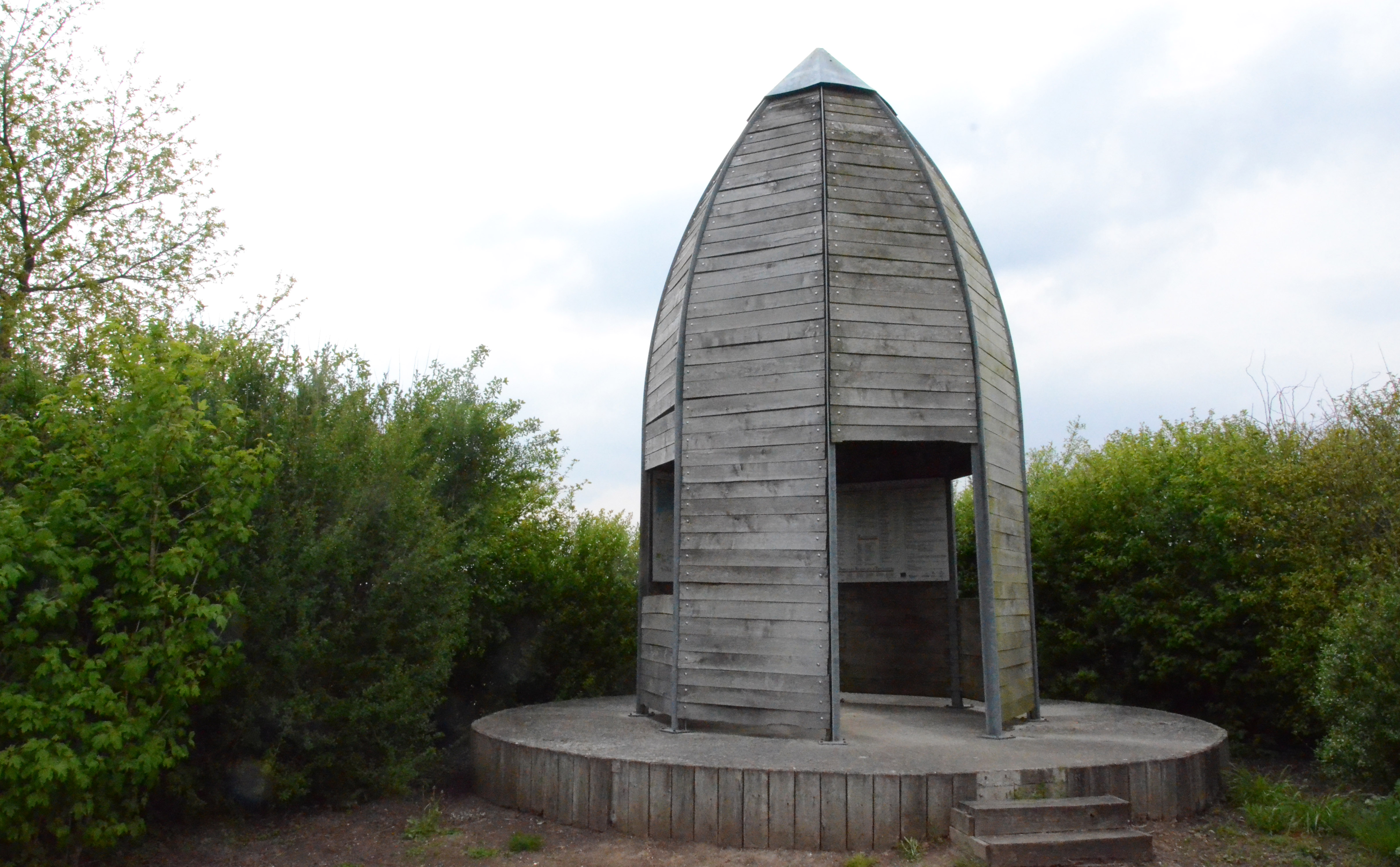 In Buysscheure, near the sources of the Yser river (France) there is a communal pool, an orchard and a reception point accessibles from the road, with indications "source of the Yser."